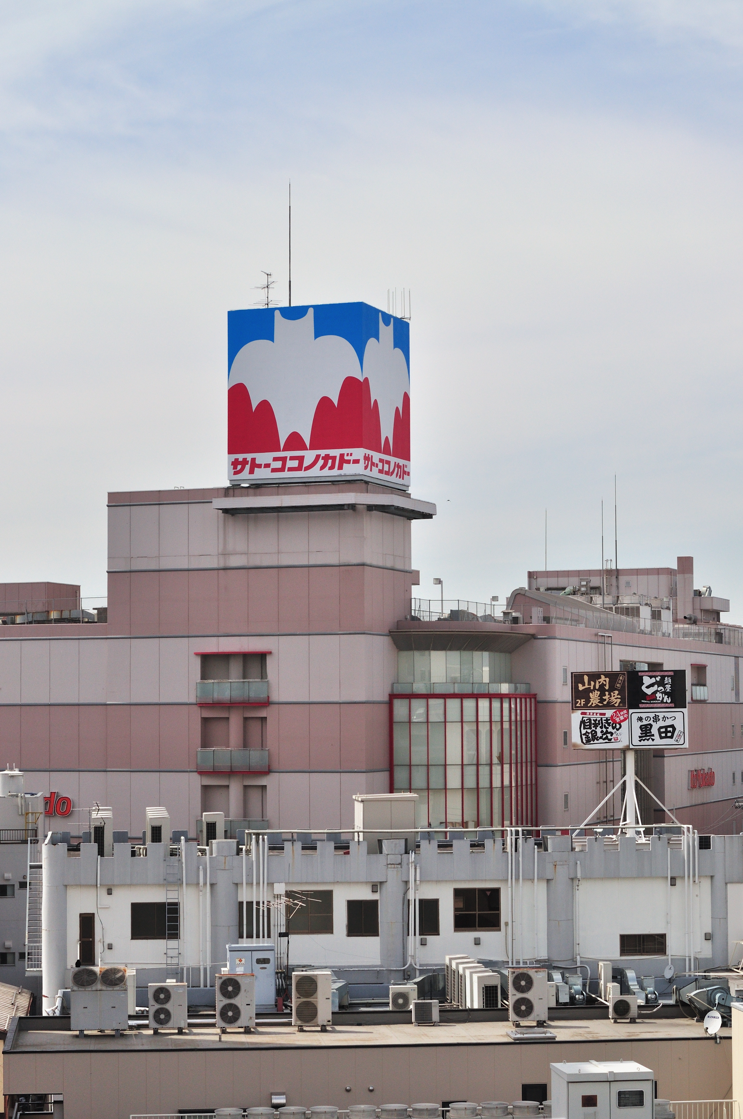 Ito Yokado in Kasukabe. Collaborated with Crayon Shinchan.